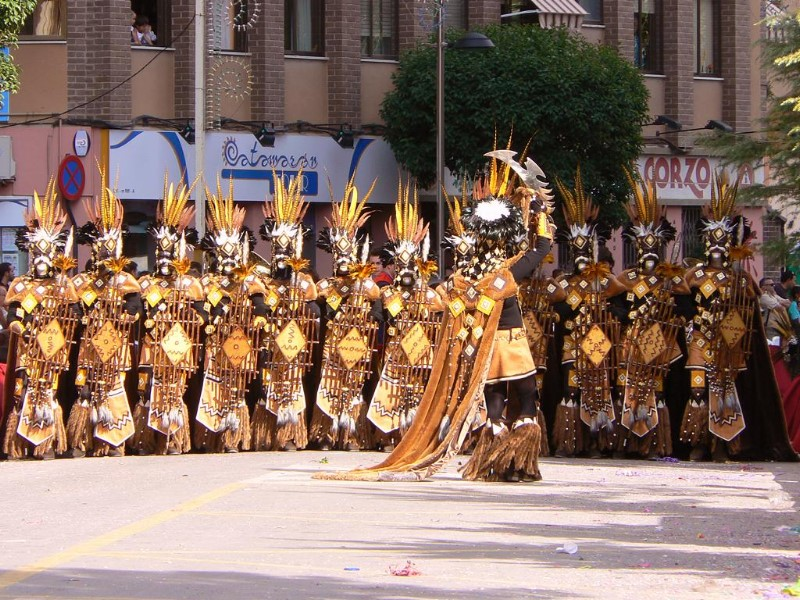 Photo of de Escuadra de Zulúes in Villena,Spain